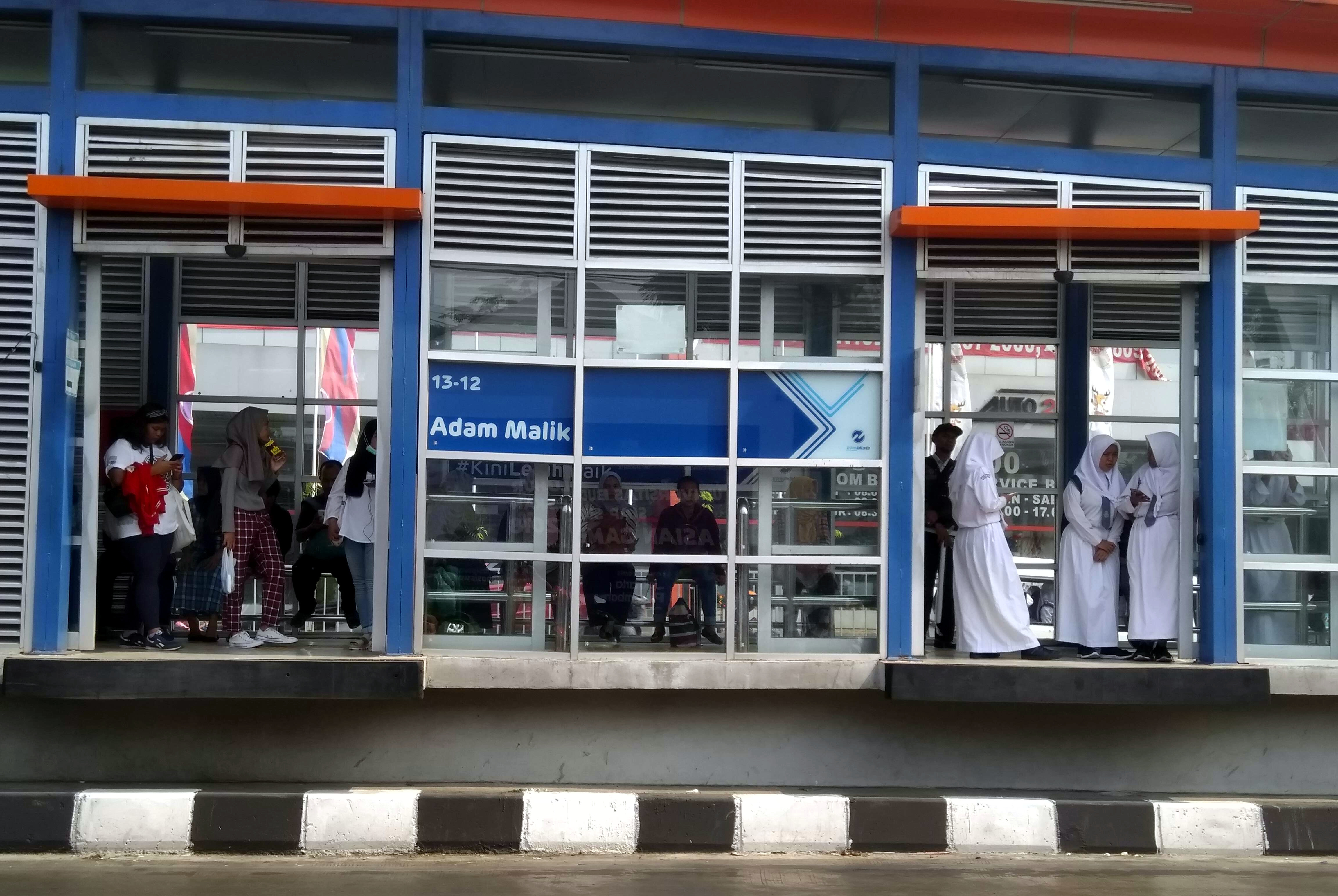 Adam Malik TransJakarta shelter with passengers waiting inside.